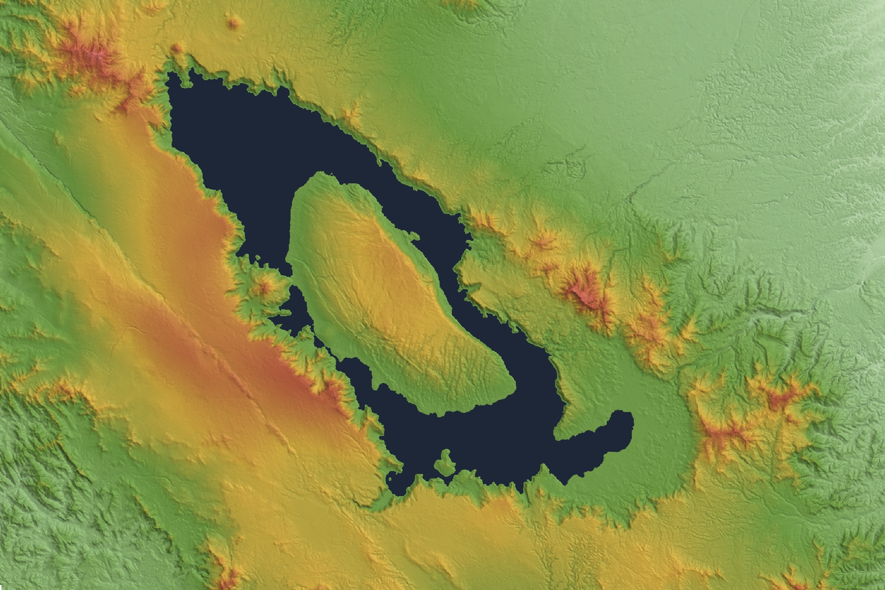 Lake Toba and Toba Caldera in Sumatra, Indonesia. This file updated by 30m Mesh.